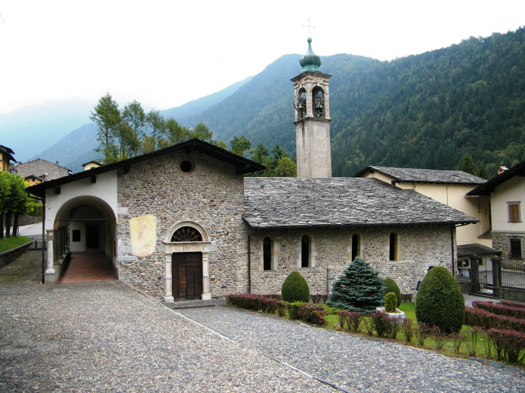 Church of St James. Gromo